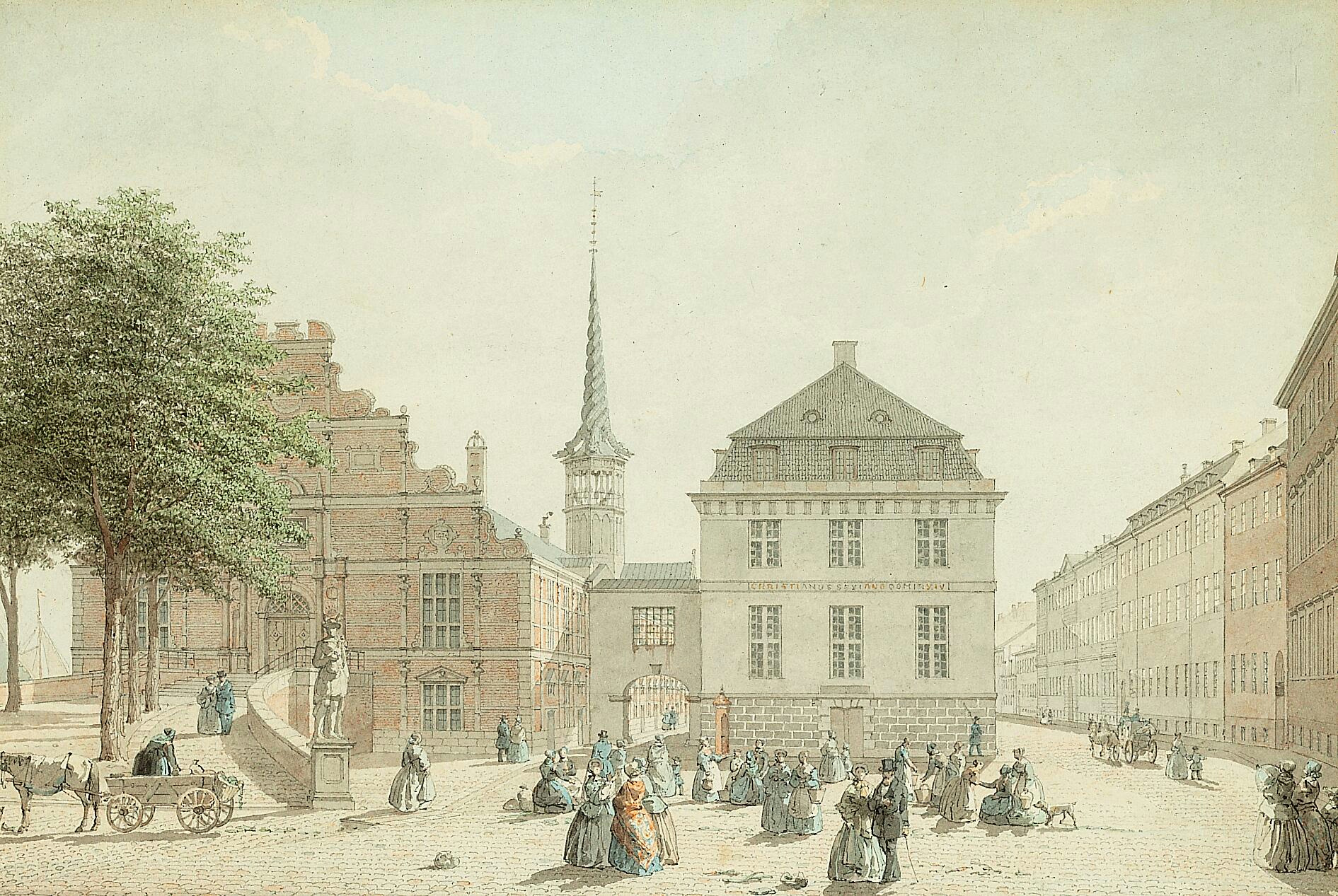 Børsen and Nationalbanken seen from Slotpladsen in Copenhagen, Denmark